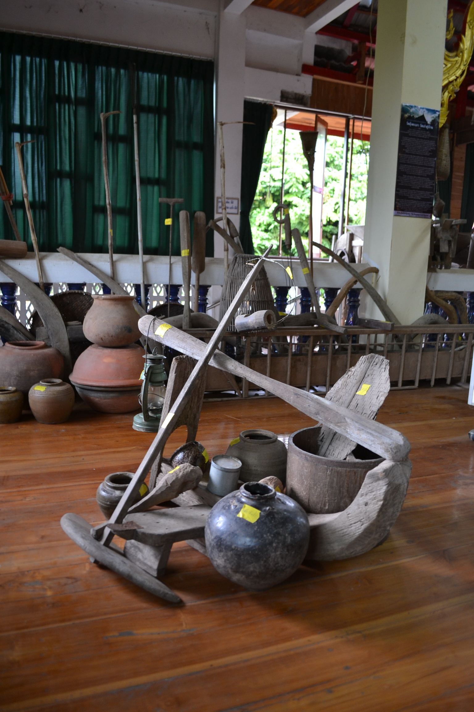 Wat Kungtapao Local Museum. at Wat Khung Taphao, Ban Khung Taphao, Khung Taphao subdistrict, Mueang Uttaradit, Uttaradit Province, Thailand.) on December 2, 2012.